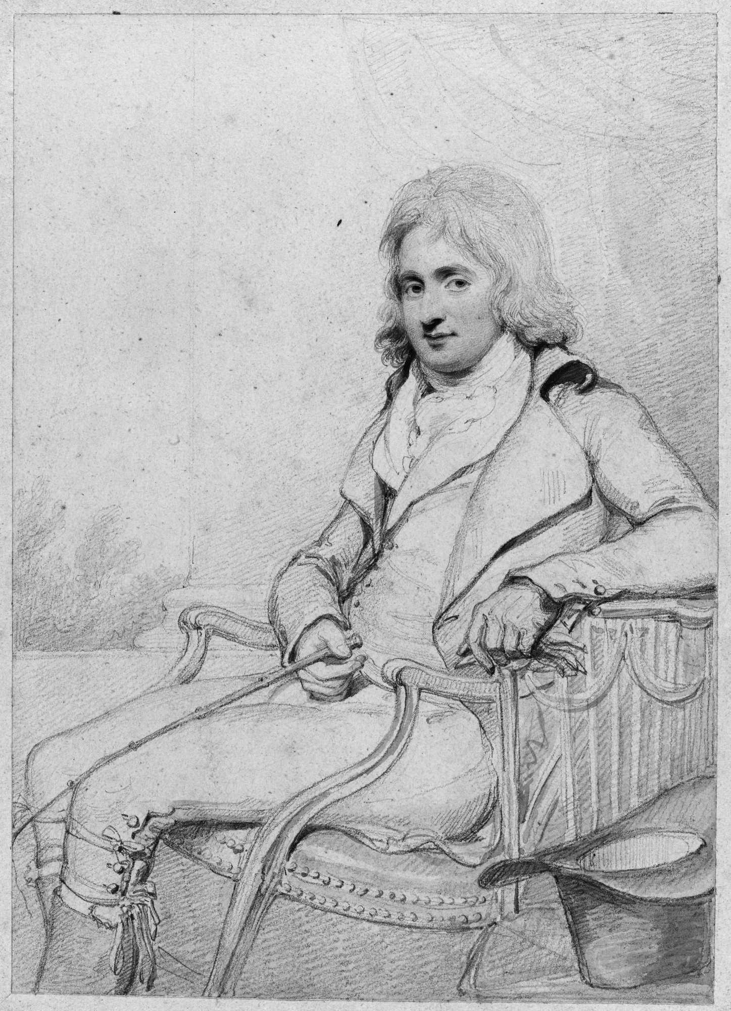 Charles Rose Ellis, 1st Baron Seaford pencil 17 by 12.5 cm inscribed: Charles-Rose ELLIS / LORD SEAFORD / COSWAY